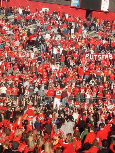 Photo taken during senior day celebrations, Rutgers vs. Syracuse football game at Rutgers Stadium, Piscataway, NJ. Taken by me, Christopher D. Thieme. 23 Brian Leonard, fullback, senior (Class of 2007) at center of photo, leading the band in a rendition of the Rutgers Alma Mater "On the Banks of the Old Raritan".